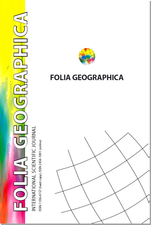 Folia Geographica - International Scientific Journal (cover)